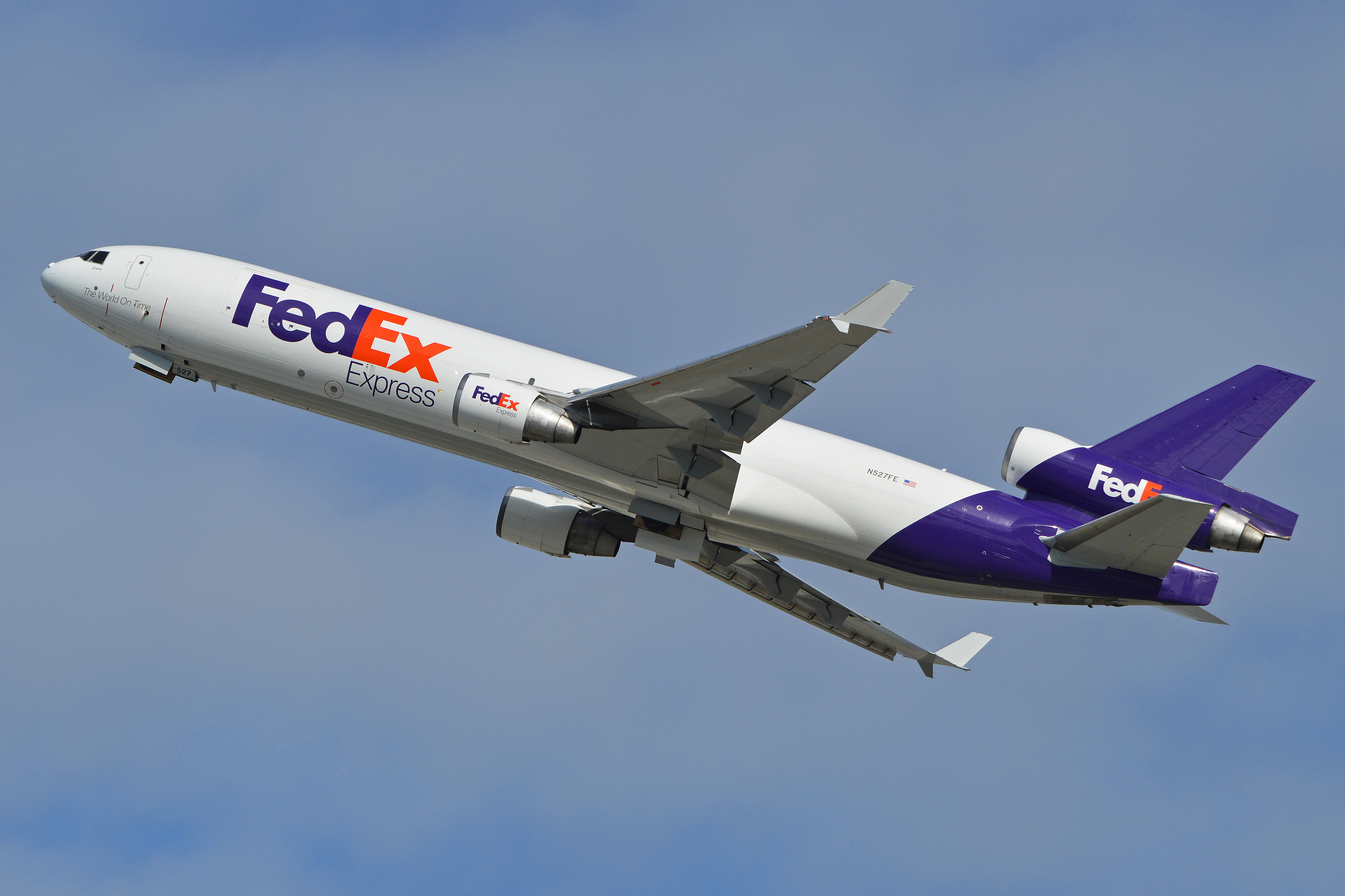 c/n 48601, l/n 562. Built 1994. Seen departing LAX and taken from the Imperial Hill spotting location. Los Angeles, California, USA. 08-2-2014